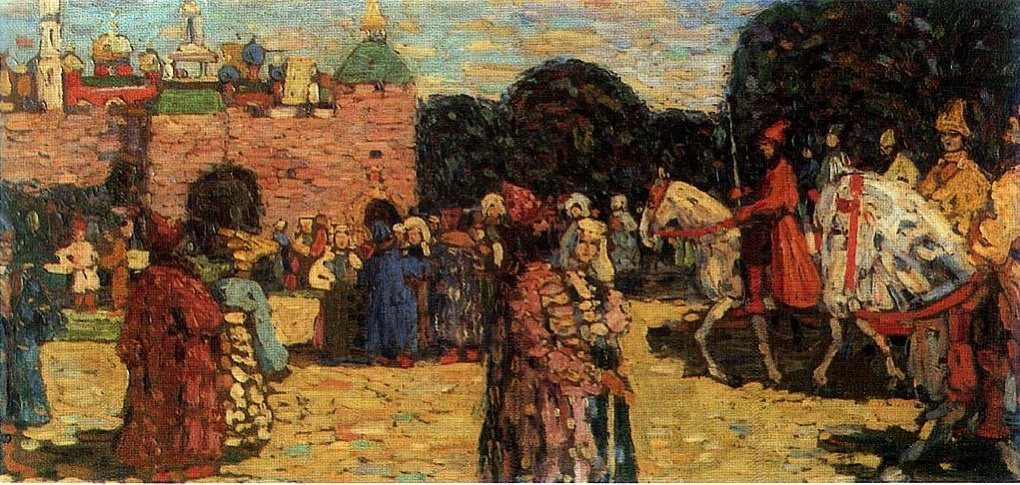 Sunday (ancient Russian)